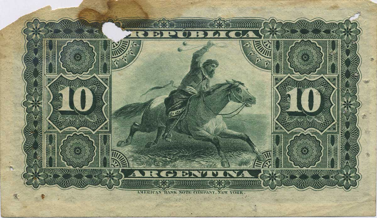 10 cents banknote of Argentina.